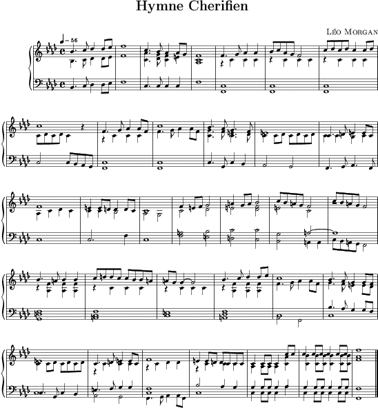 Music sheet of the moroccan anthem